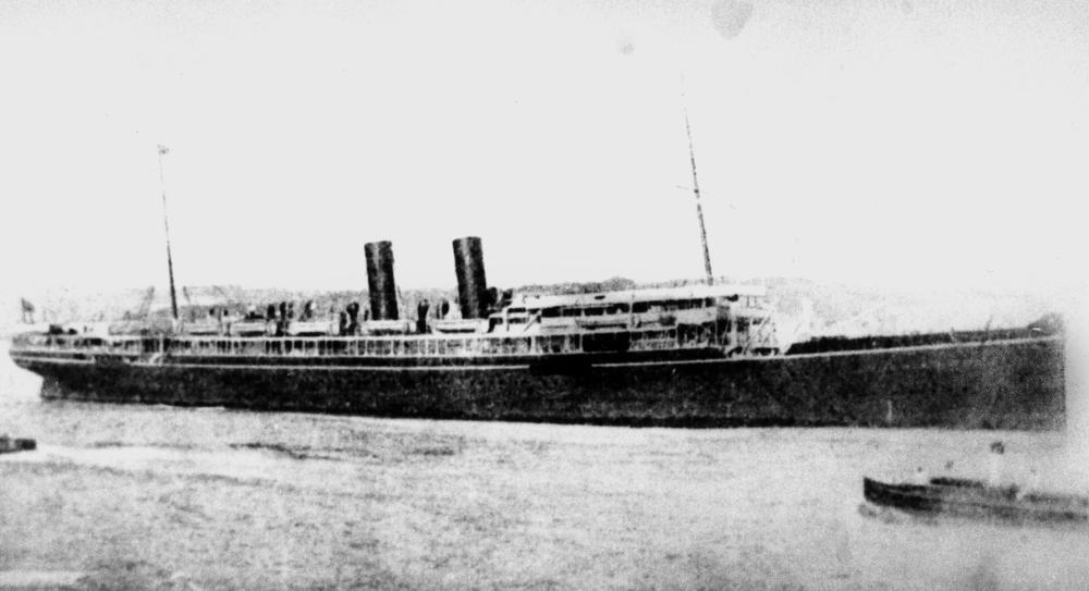 7,912 GRT liner SS Egypt, built 1897 by Caird & Co for P&O. In 1922 in fog in the English Channel she collided with the cargo vessel Seine and sank, killing 86 people. Her strong room contained more than £1 million in silver bullion and gold sovereigns. In the 1930s an Italian salvage company used explosives and a diver to open the strong room and recover most of the silver and gold.